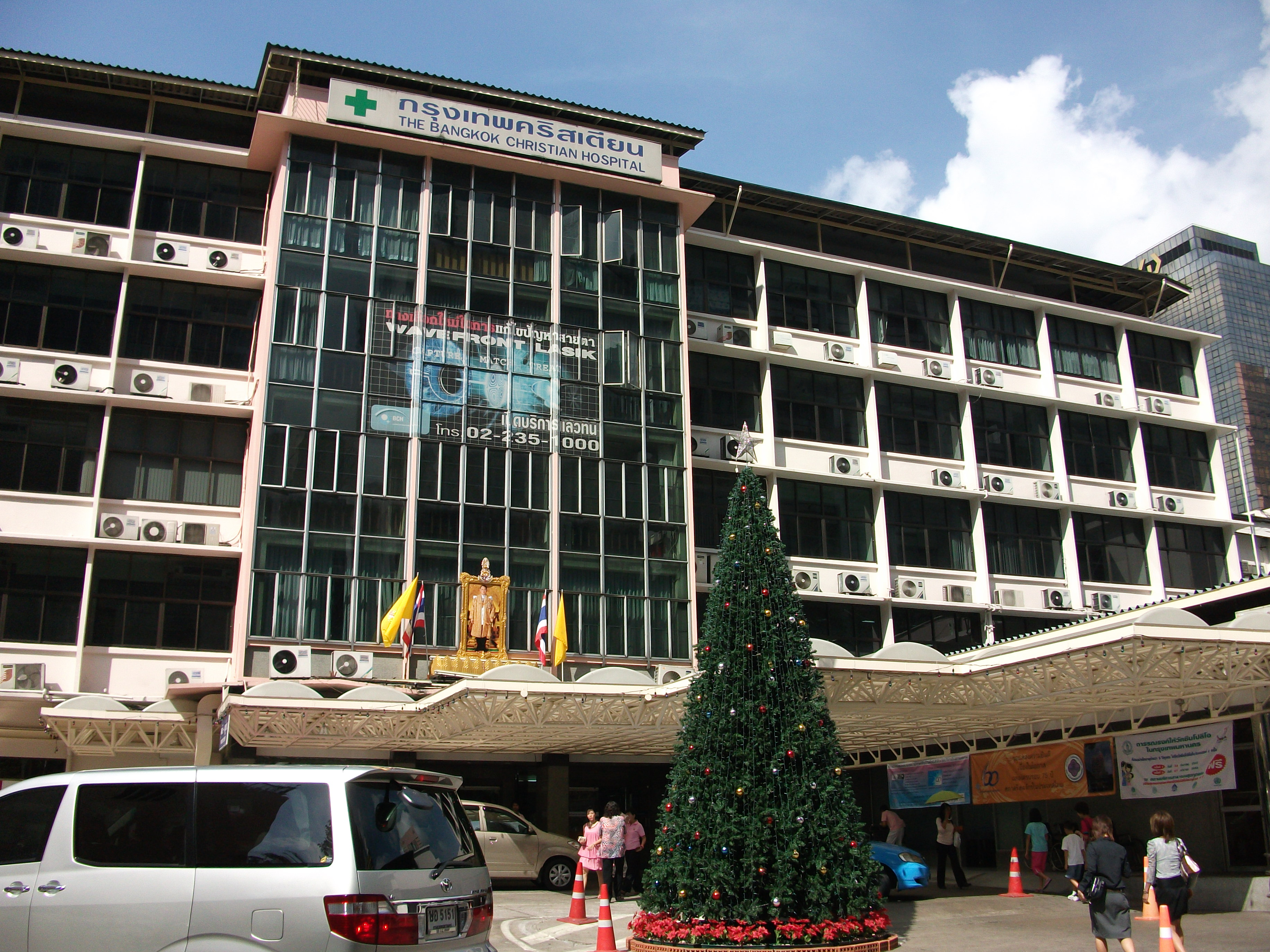 The Bangkok Christian Hospital